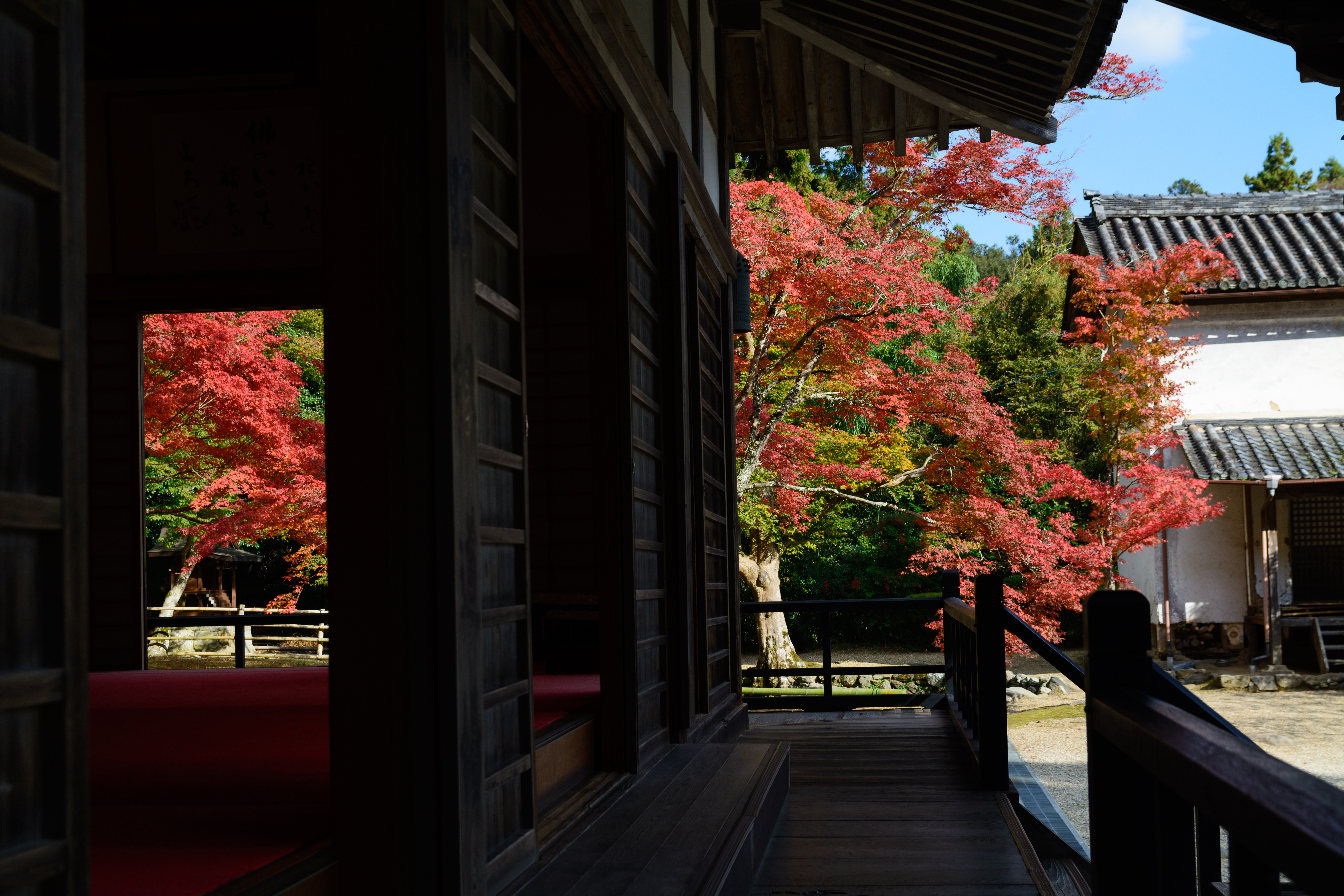 Shoryaku-ji's main hall, in Nara, Nara prefecture